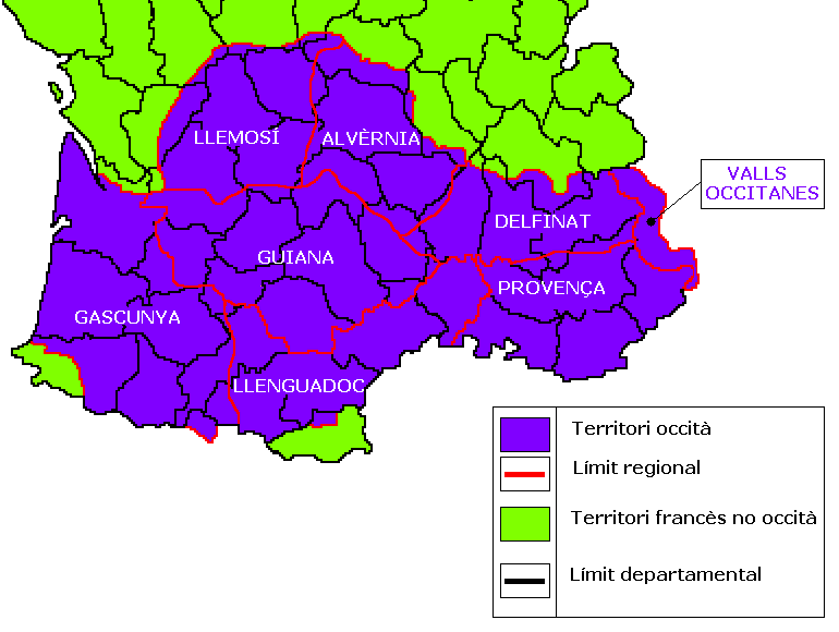 Map of Occitanian regions, in Catalan.